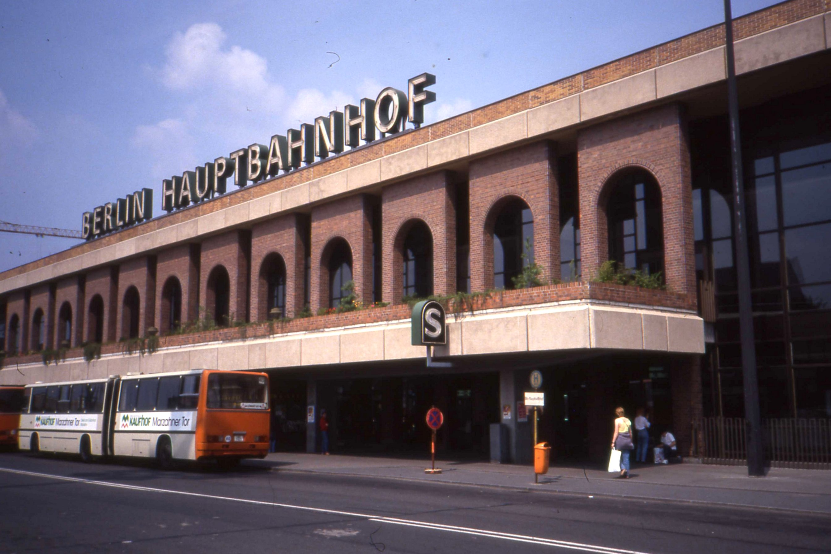 With Ikarus buses waiting. Previously the Schlesicher Bahnhof, later the Ostbahnhof, and now the Ostbahnhof again.